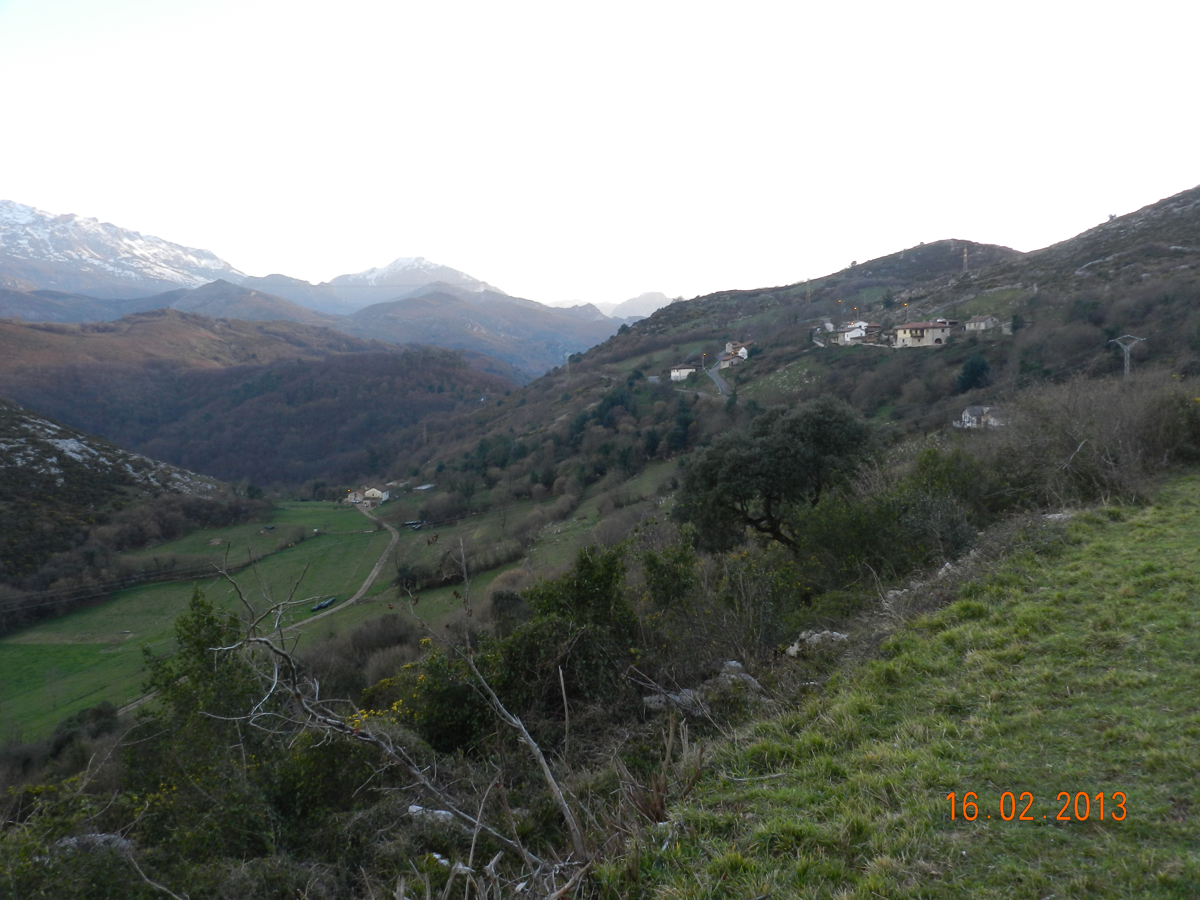 las carangas y barrio casas de abajo